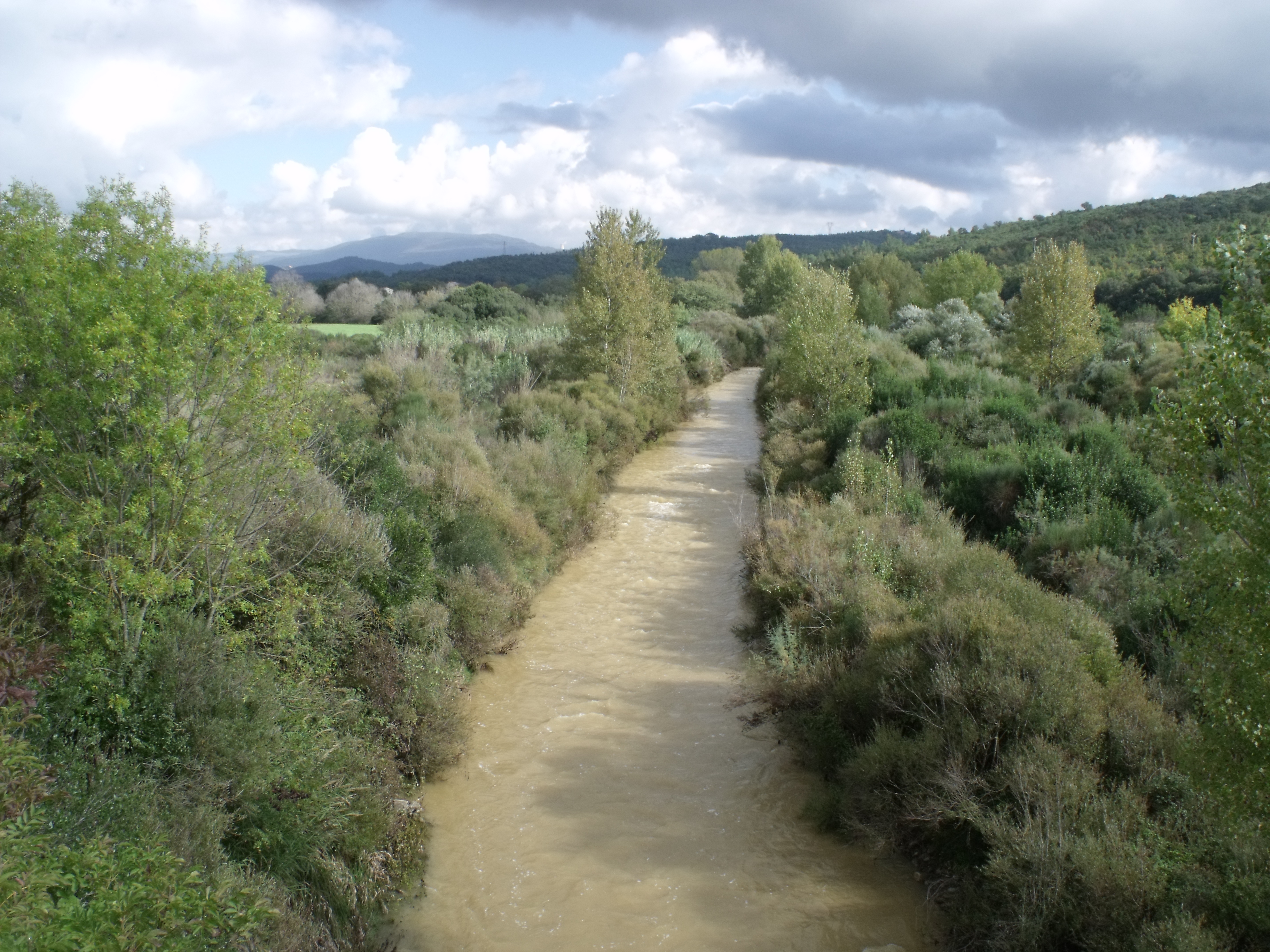 The Cornia River in the Val di Cornia between Monteverdi Marittimo (Province of Pisa) and Suvereto (Province of Livorno), Tuscany, Italy